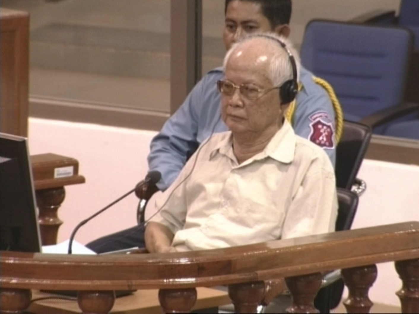 Khieu Samphan at a public hearing before the Pre-Trial Chamber in the Extraordinary Chambers in the Courts of Cambodia on 3 July 2009. The photo can be used freely by media provided that the photo is credited "Courtesy of Extraordinary Chambers in the Courts of Cambodia".